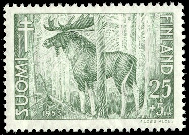 Postage stamp depicting Alces alces, elk, very common in Finland